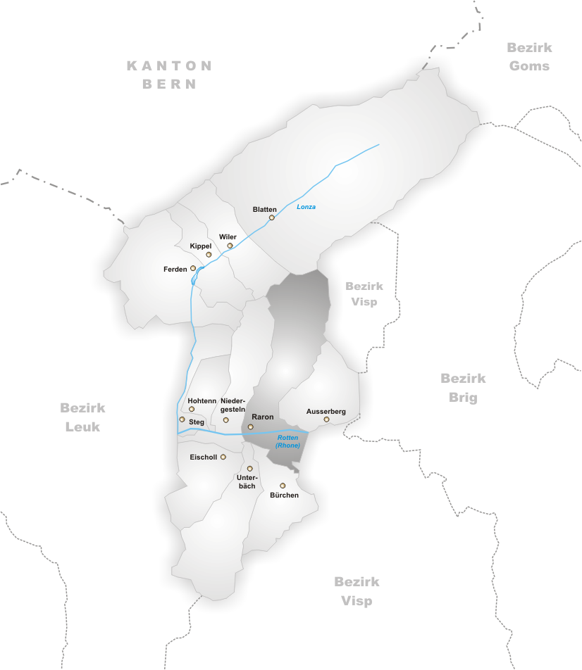 Municipality Raron